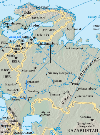 Map of the Volga–Baltic Waterway (boxed area). And the entire Volga River — in relation to the Caspian Sea and Black Sea ports. A 19th century canal/locks system that expedited transport/shipping into/through interior western Imperial Russia to northern Europe (via Baltic) and southern Europe/West Asia (via Black Sea). The Soviet Union periodically modernized its components/capacities during the 20th century. Credits source map modified with additional labels, box source map modified with additional labels, line drawing, box Original map cropped from